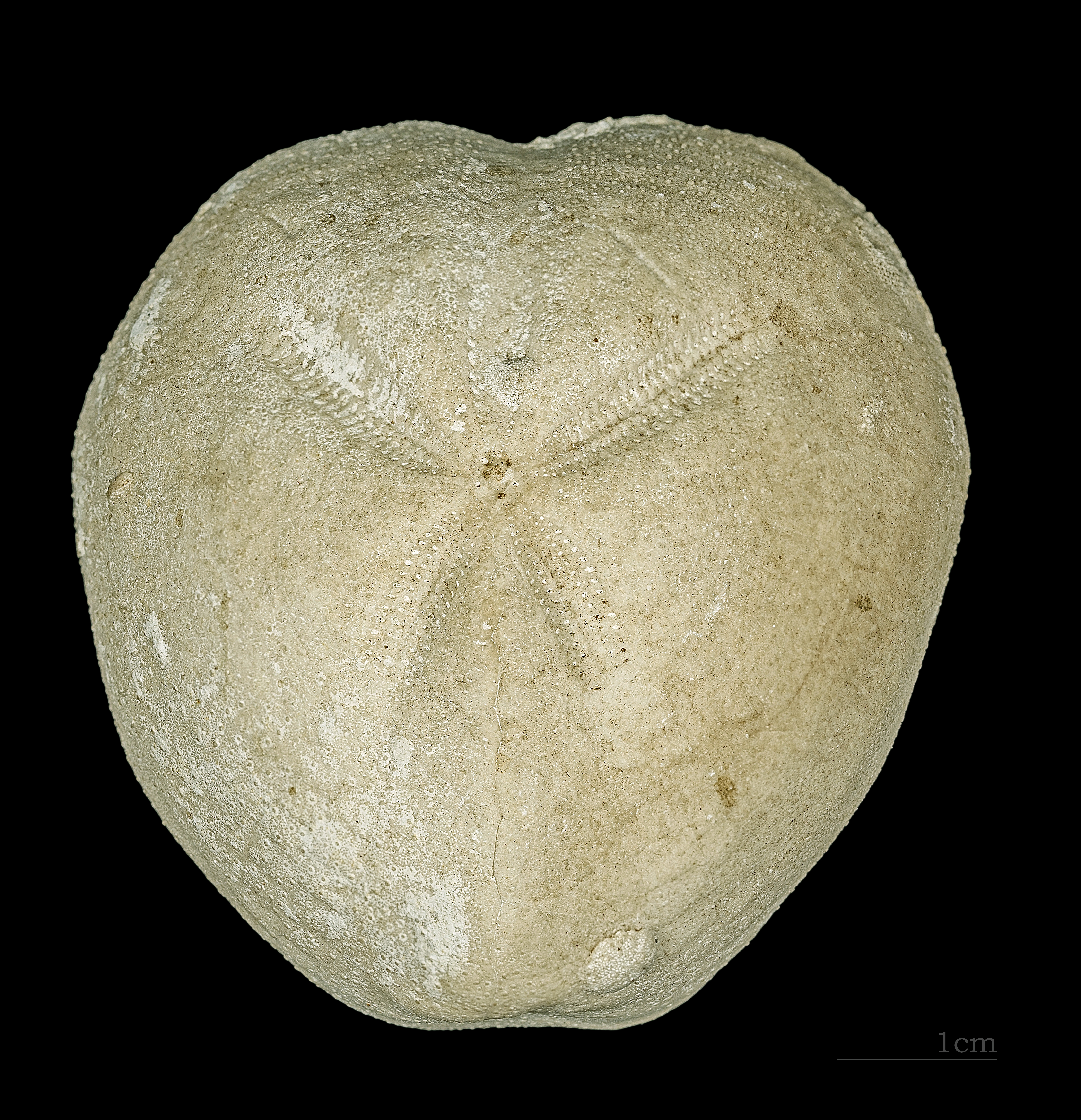 Micraster decipiens. Stage : Coniacian between 89.3 ± 1 Ma and 85.8 ± 0.7 Ma (million years ago).